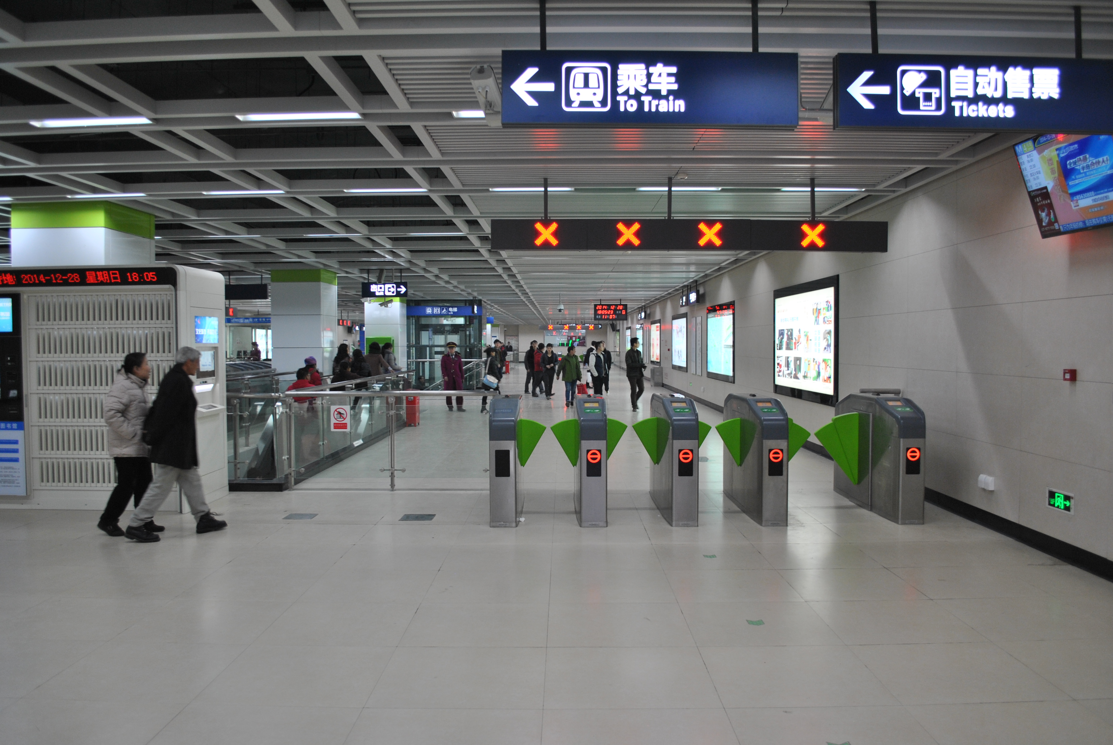 Hangyang Railway Station